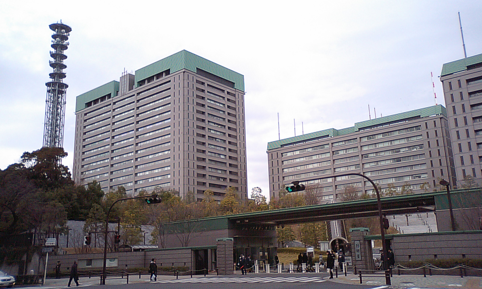 Ministry of Defense (Japan)